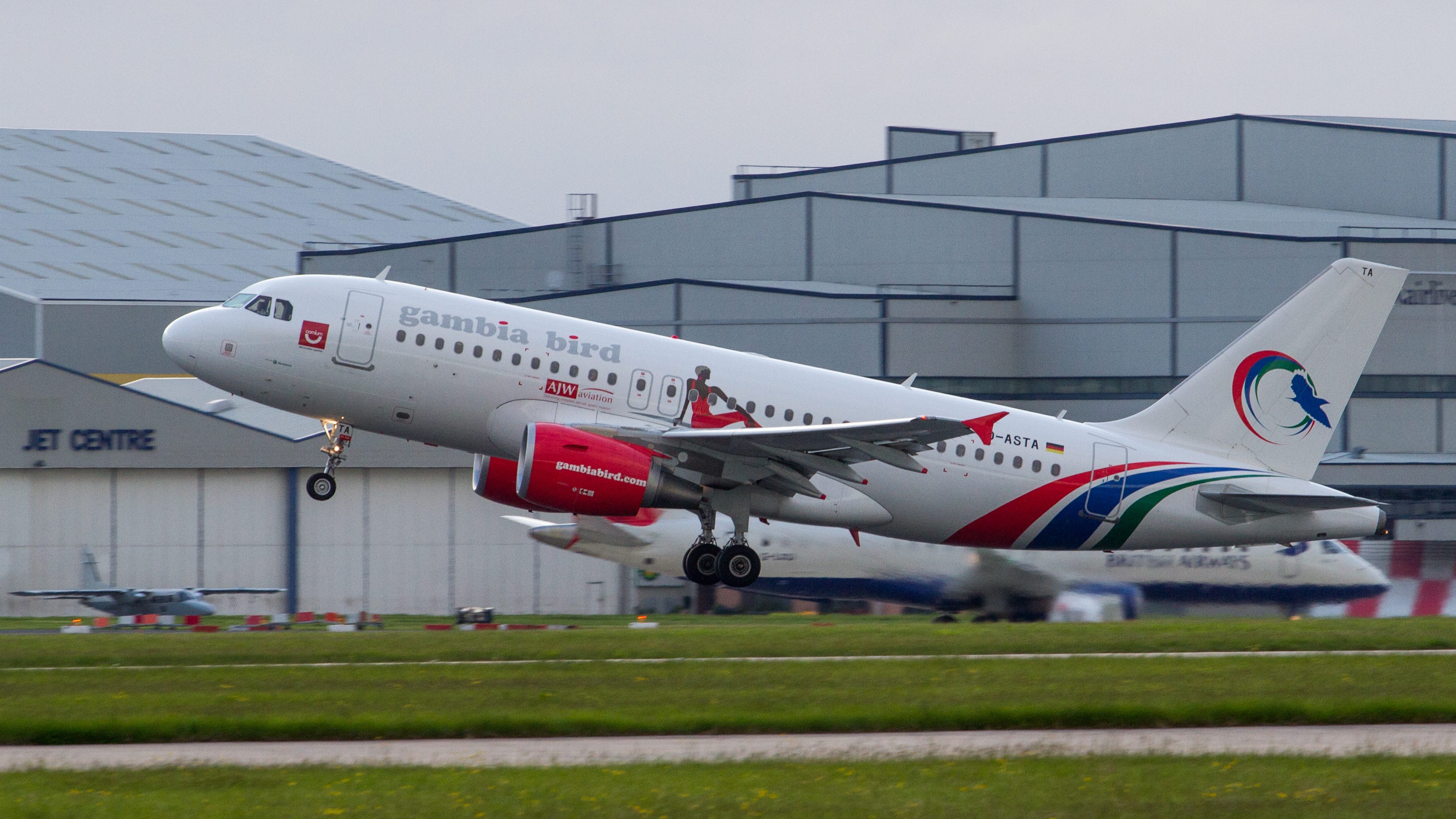 Gambia Bird Airbus A319 (D-ASTA) taking off at Manchester Airport